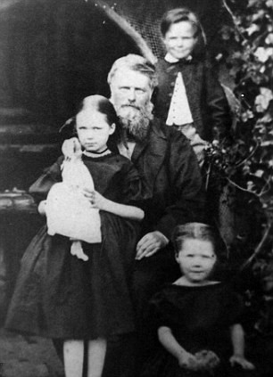 Squire William Paget Hoblyn and three children - Ernest, Wilhelmin and Rosalind - in 1860s. Paget Hoblyn moved into Fir Hill Manor in 1856